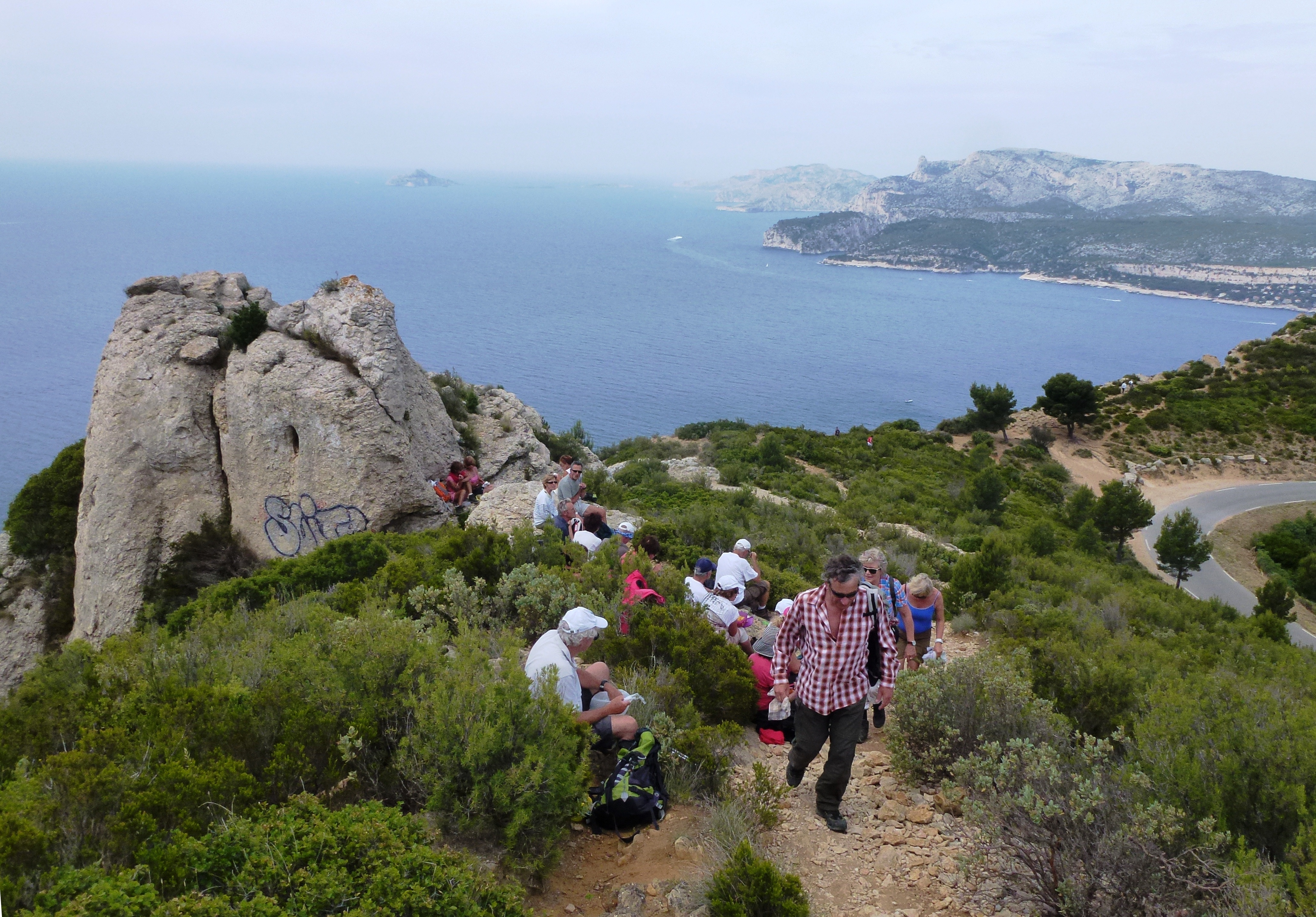 Route des Cretes Cassis - La Ciotat